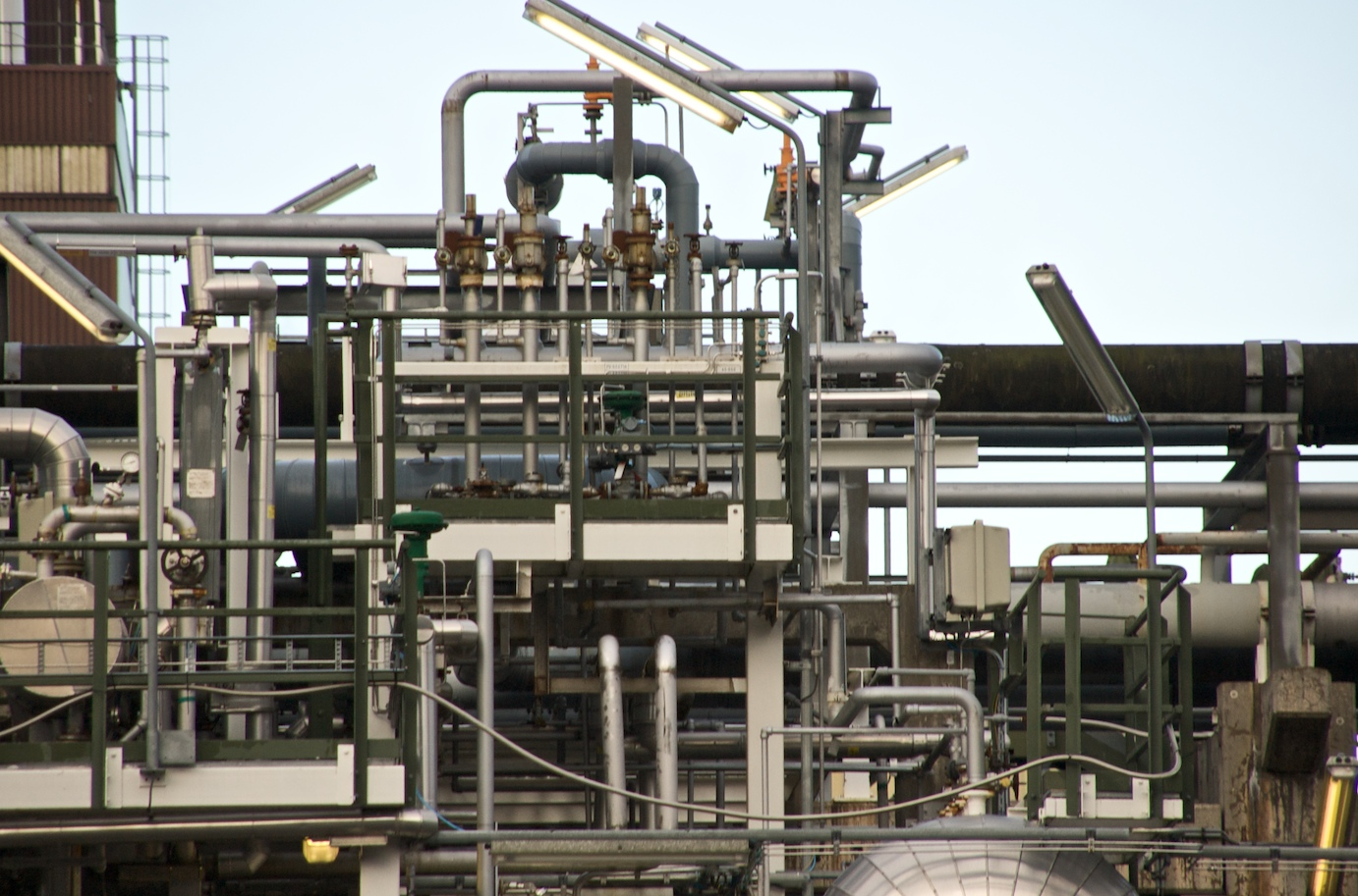 Piping in a petrochemical plant.